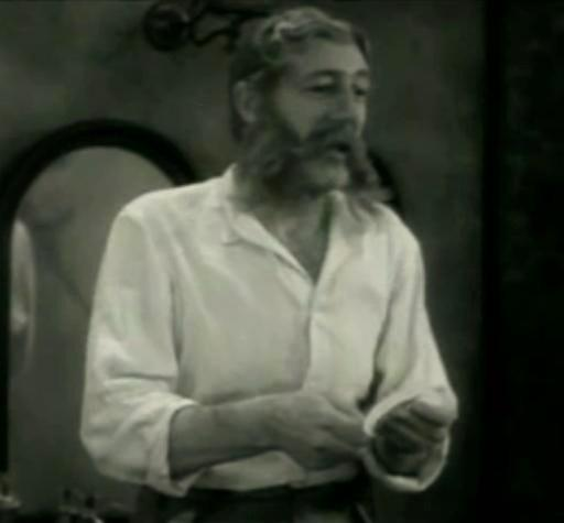 Lumsden Hare in Svengali - cropped screenshot